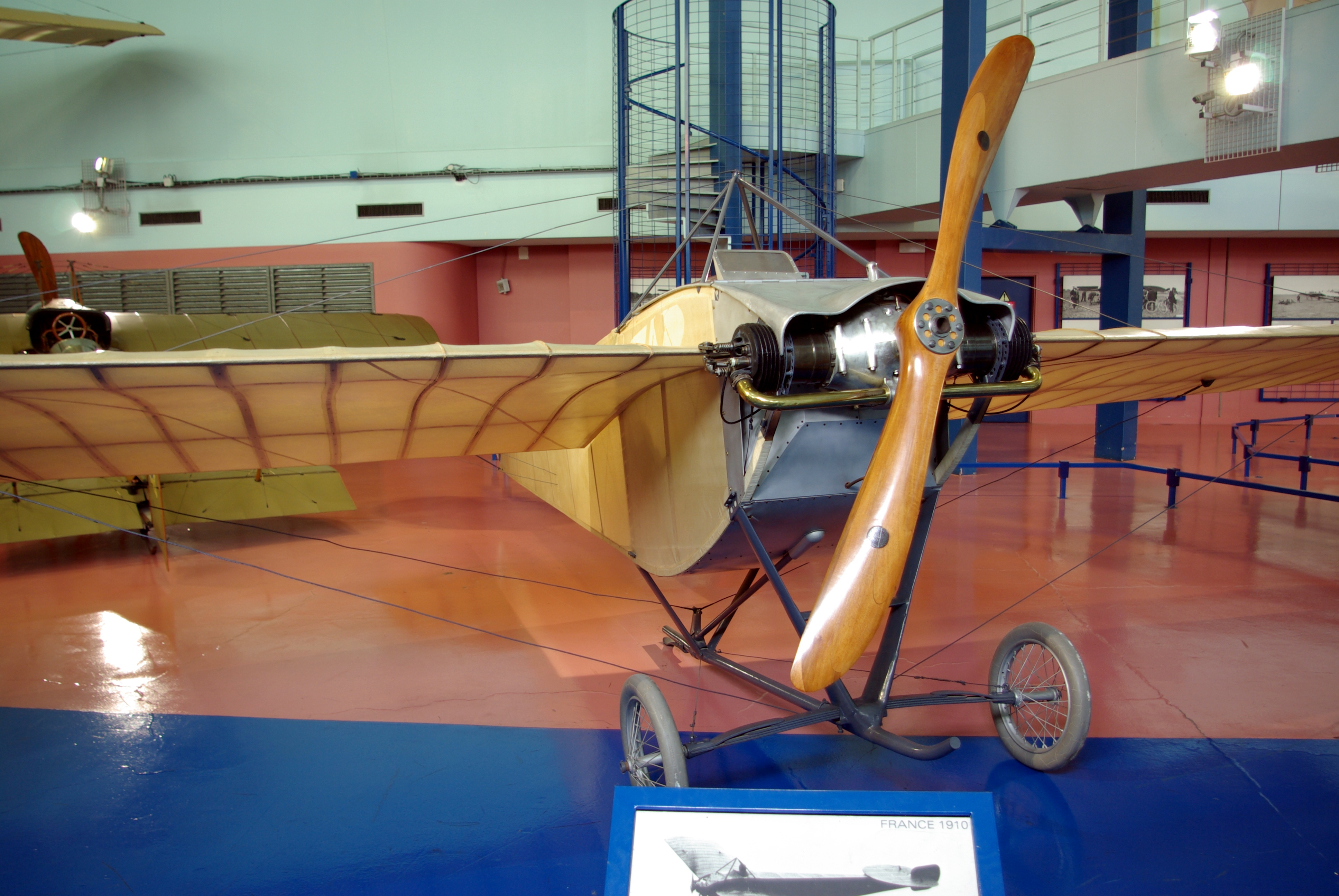 A Nieuport IIN exhibited at the Air & Space Museum at Le Bourget, France.